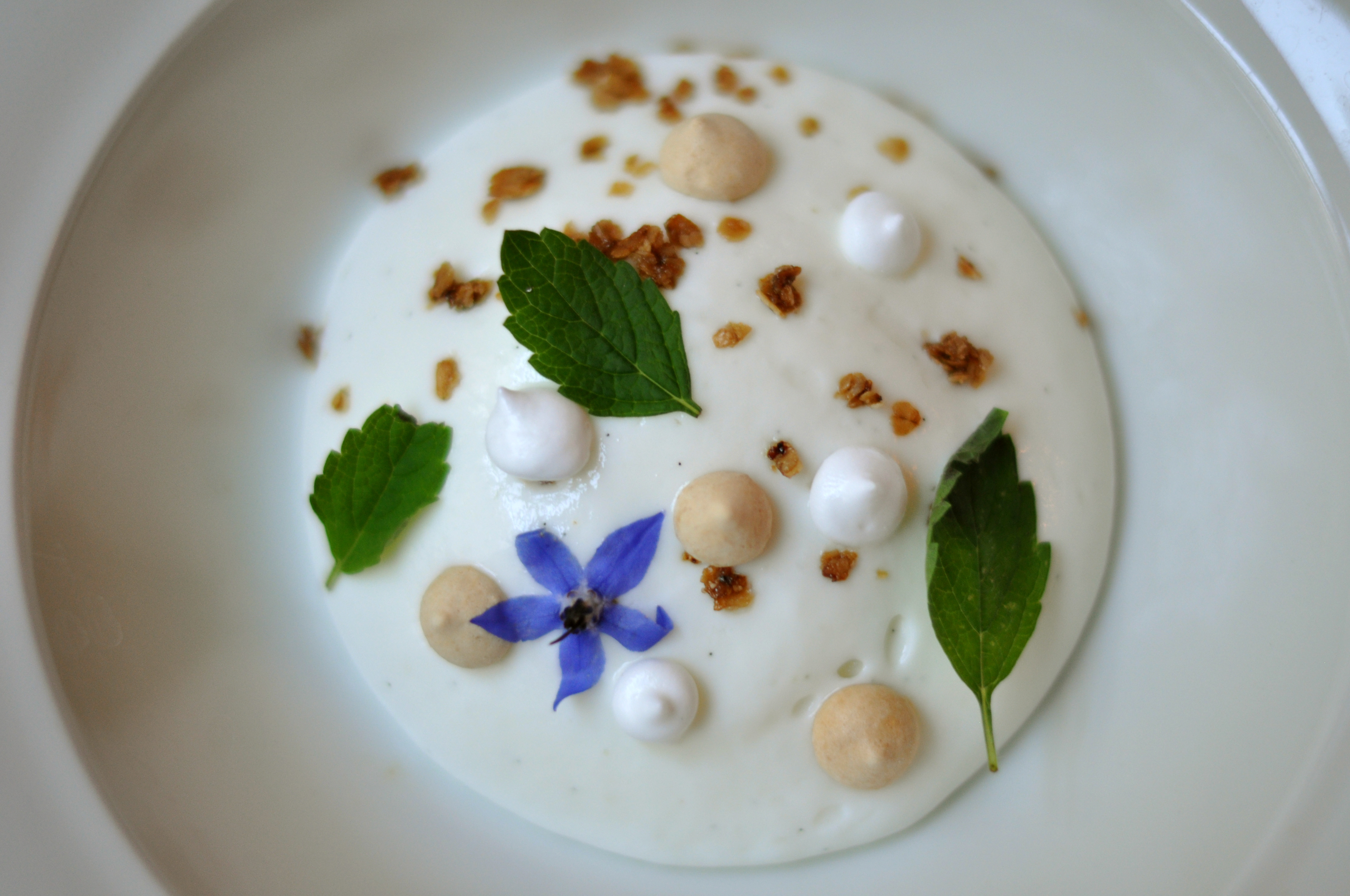 Restaurant Marv & Ben: Ymerfromage med havesyreparfait, havregryn og marengs (Ymer mousse with sorrel parfait, oatmeal and meringue)